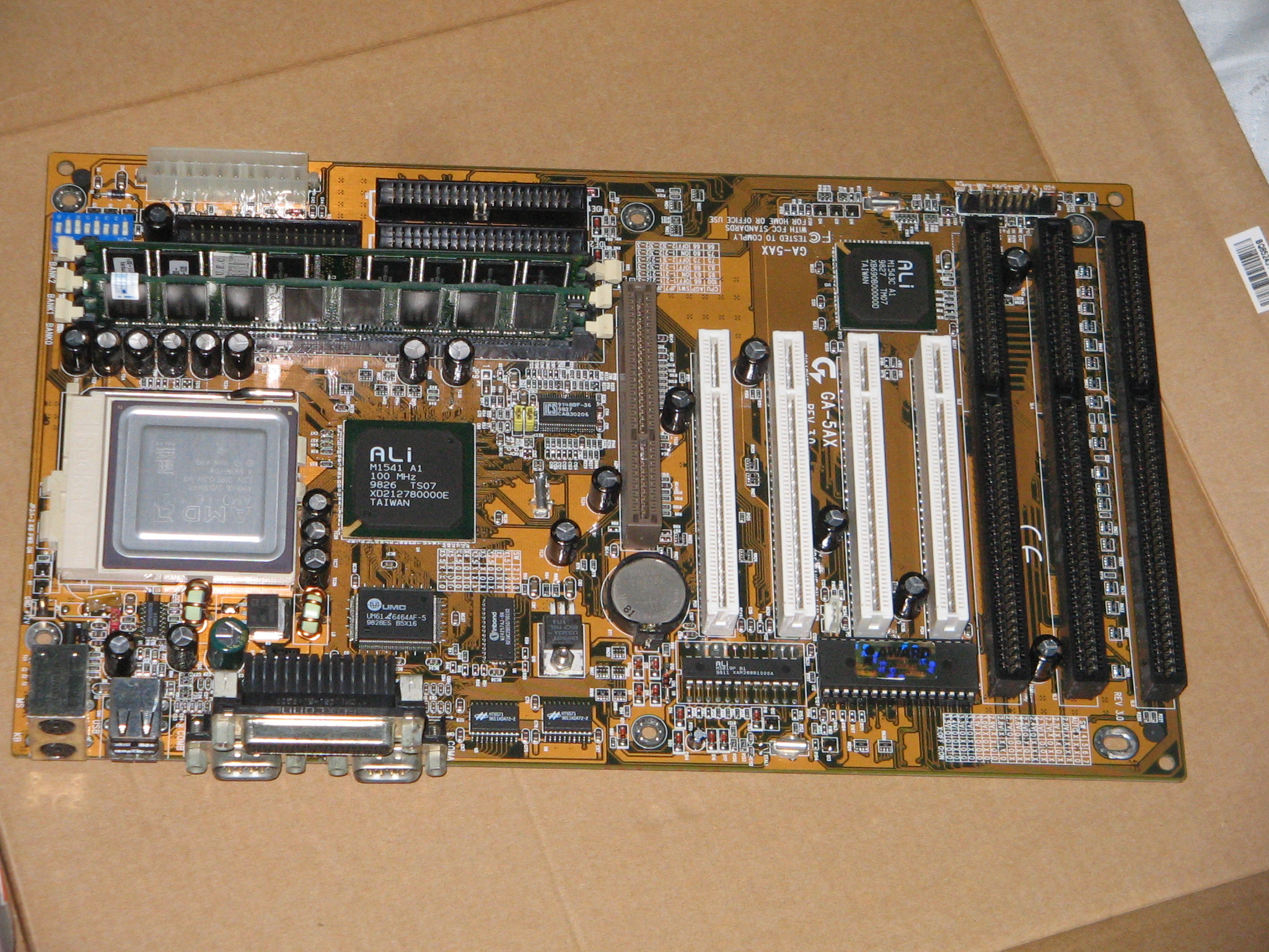 Gigabyte GA-5AX rev. 3.0 motherboard, utilising the ALi M1541 chipset with Socket 7 AMD K6-2 300Mhz processor.